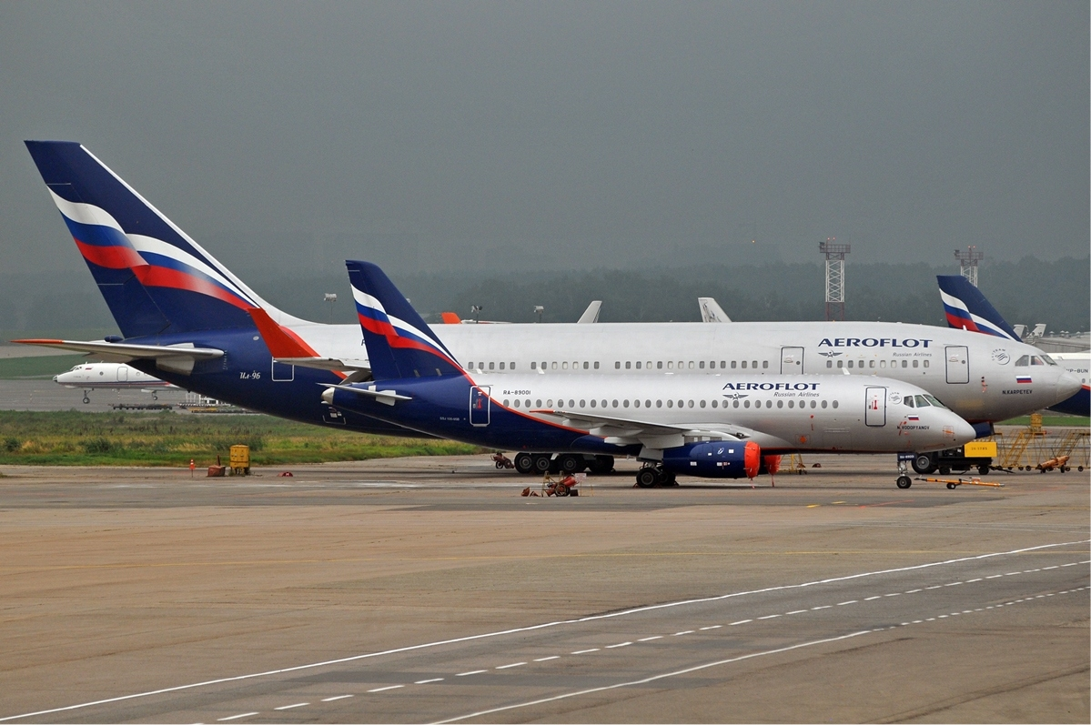 Aeroflot Sukhoi SuperJet and Ilyushin Il-96-300